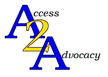 Access to Advocacy logo